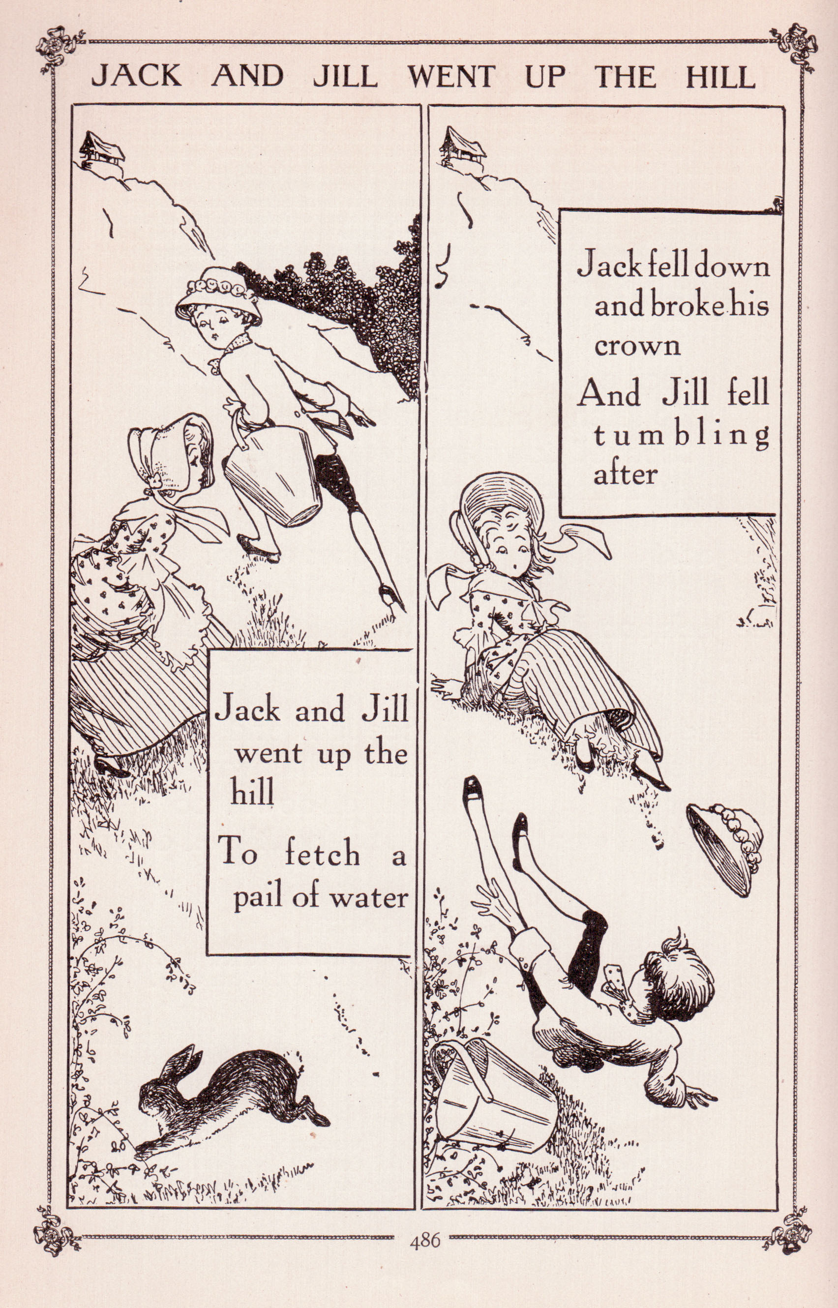 This illustration is from the public domain book, The Book of Knowledge, The Children’s Encyclopedia, Edited by Arthur Mee and Holland Thompson, Ph. D., Vol II, Copyright 1912, The Grolier Society of New York. The original copyright for these books was 1899. This is from page 486, "Jack and Jill Went Up The Hill" Flickr data on 2011-08-18: Tags: 1912, book, Book of Knowledge, copyright free, creative commons, dance, flickr, free License: CC BY 2.0 User: perpetualplum Sue Clark